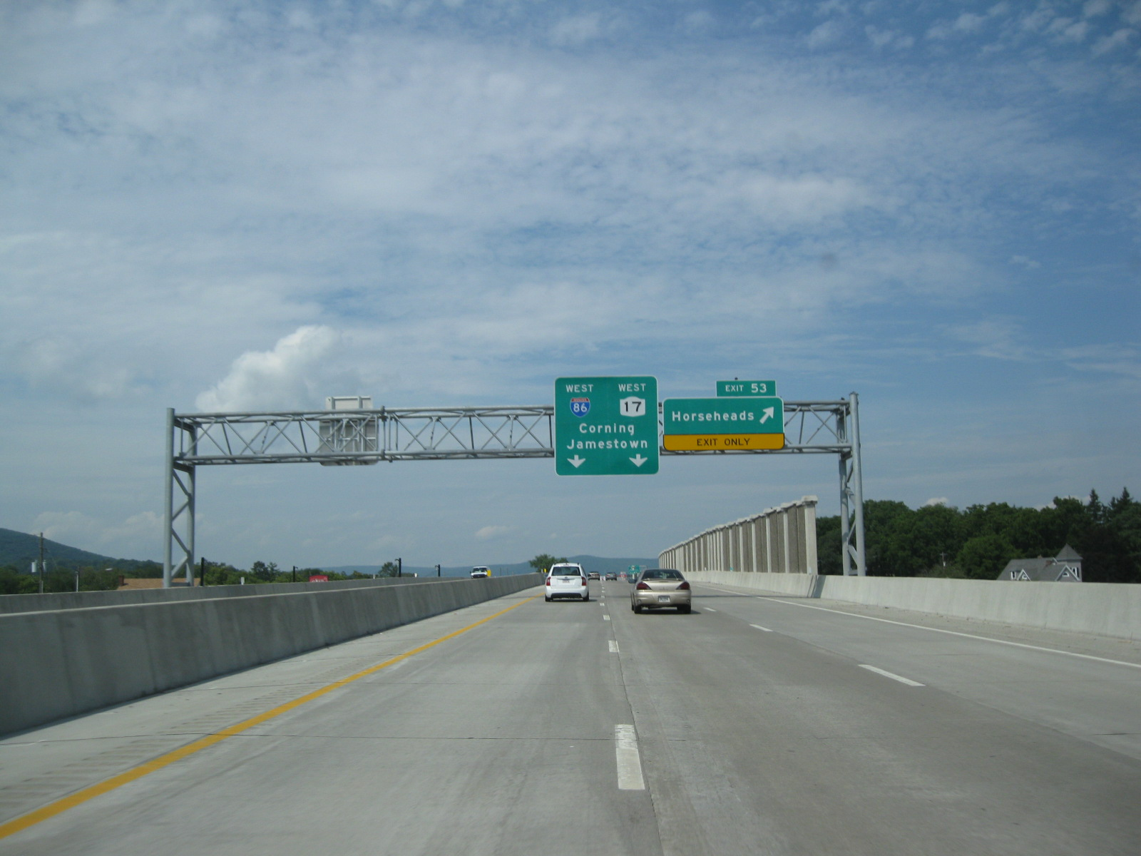 Westbound on the Horseheads Bypass, an elevated section of Interstate 86 built atop a series of embankments and bridges through the village of Horseheads, New York. Exit 53, a new exit for the village built as part of the bypass project, is in the background.